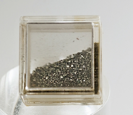 Locality: Urals Region, Russia Dimensions: 2.5 cm x 2.5 cm x 1.9 cm 2.5 x 2.5 x 1.9 cm (box). Iridium (variety osmiridium) is the rare variety of iridium rich in osmium. The floor of this thumbnail box is totally covered with a multitude of tiny, splendent, silvery nuggets and flakes. This is a little hoard of this rarity and is seldom available in any quantity. Old-time material that undoubtedly dates to Imperial Russia times, prior to World War I. Ex. Field Museum of Chicago Collection.